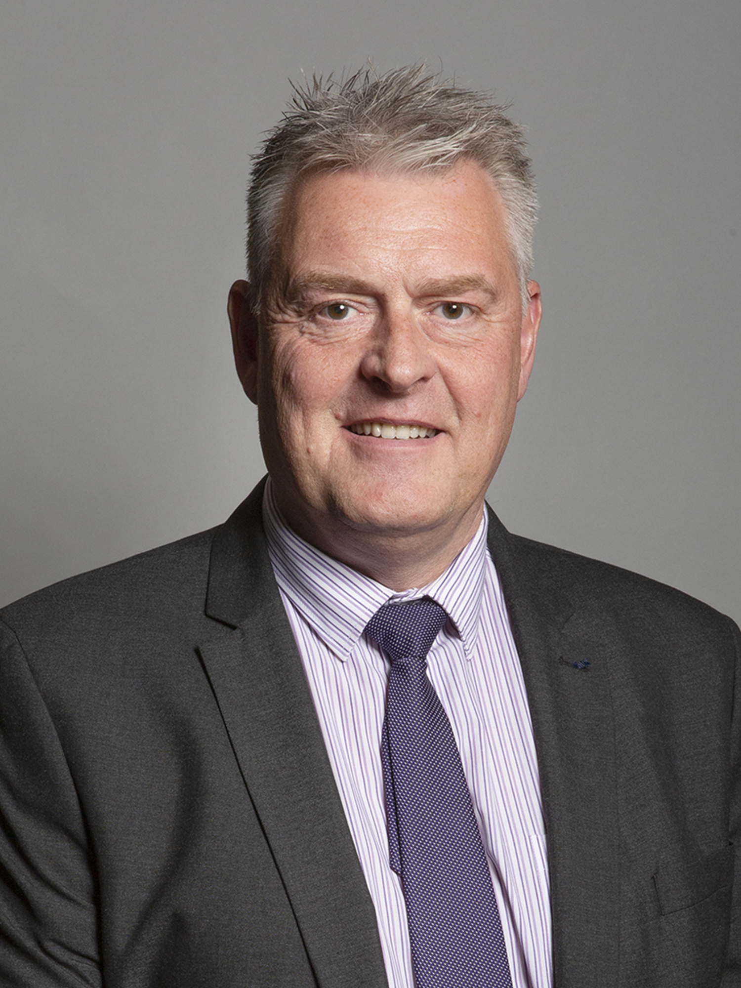 Official portrait of Lee Anderson MP 3×4 portrait of Lee Anderson